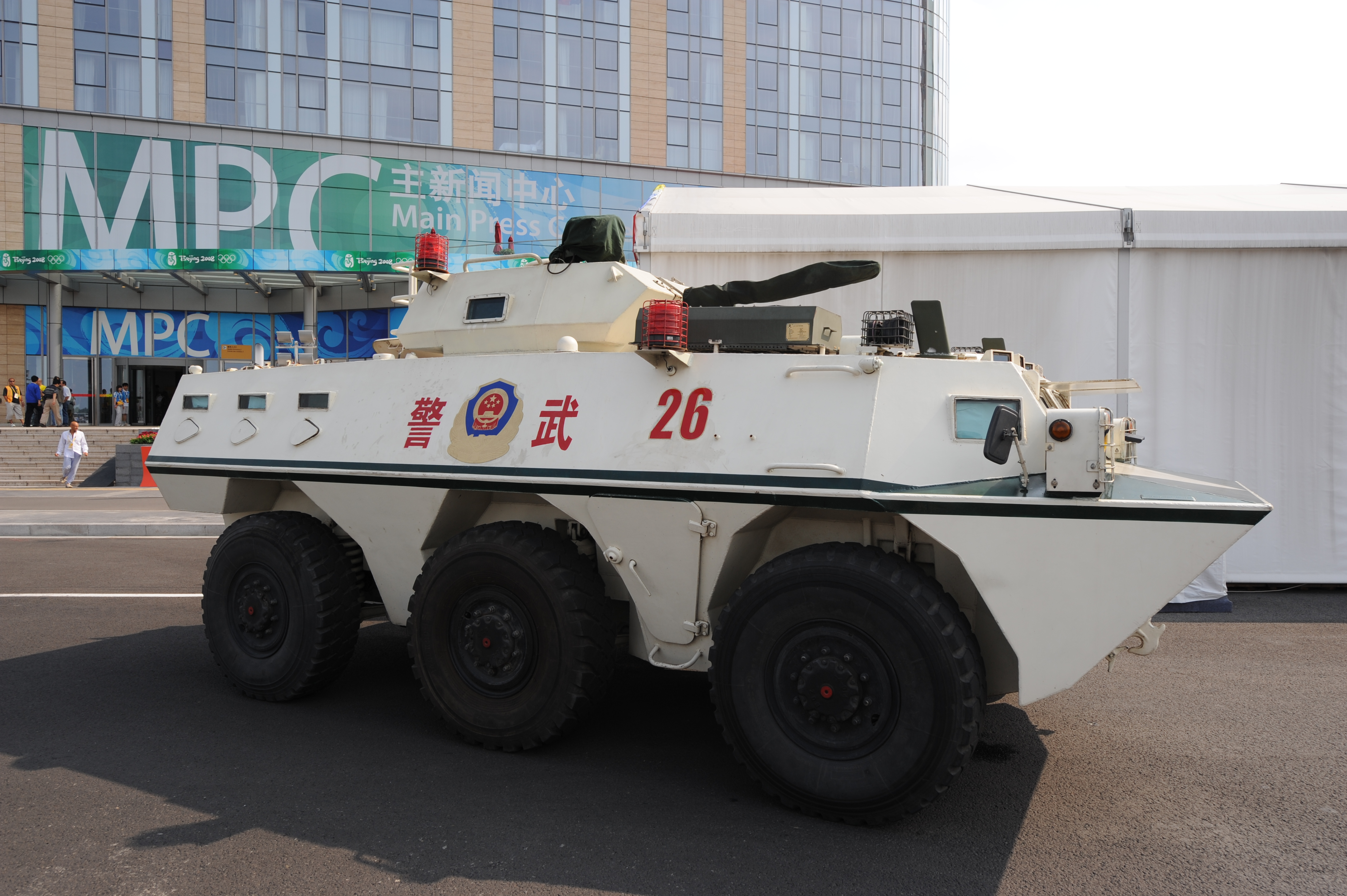 A chinese WZ551 of the People's Armed Police stands outside the Main Press Centre during the Olympic Games in Bejing 2008.